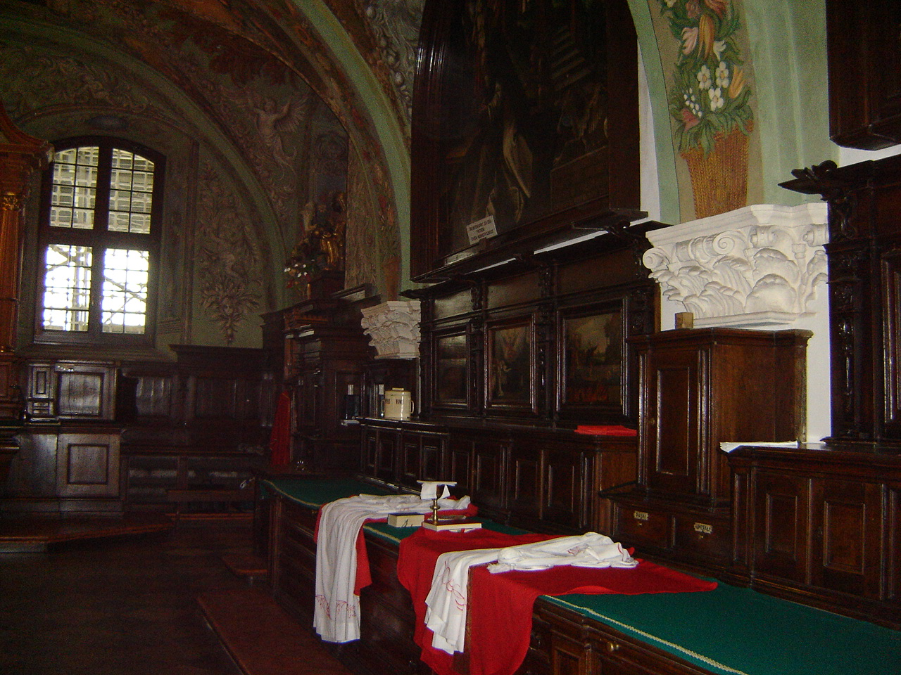 Sacristy of the Jasna Góra Basilica